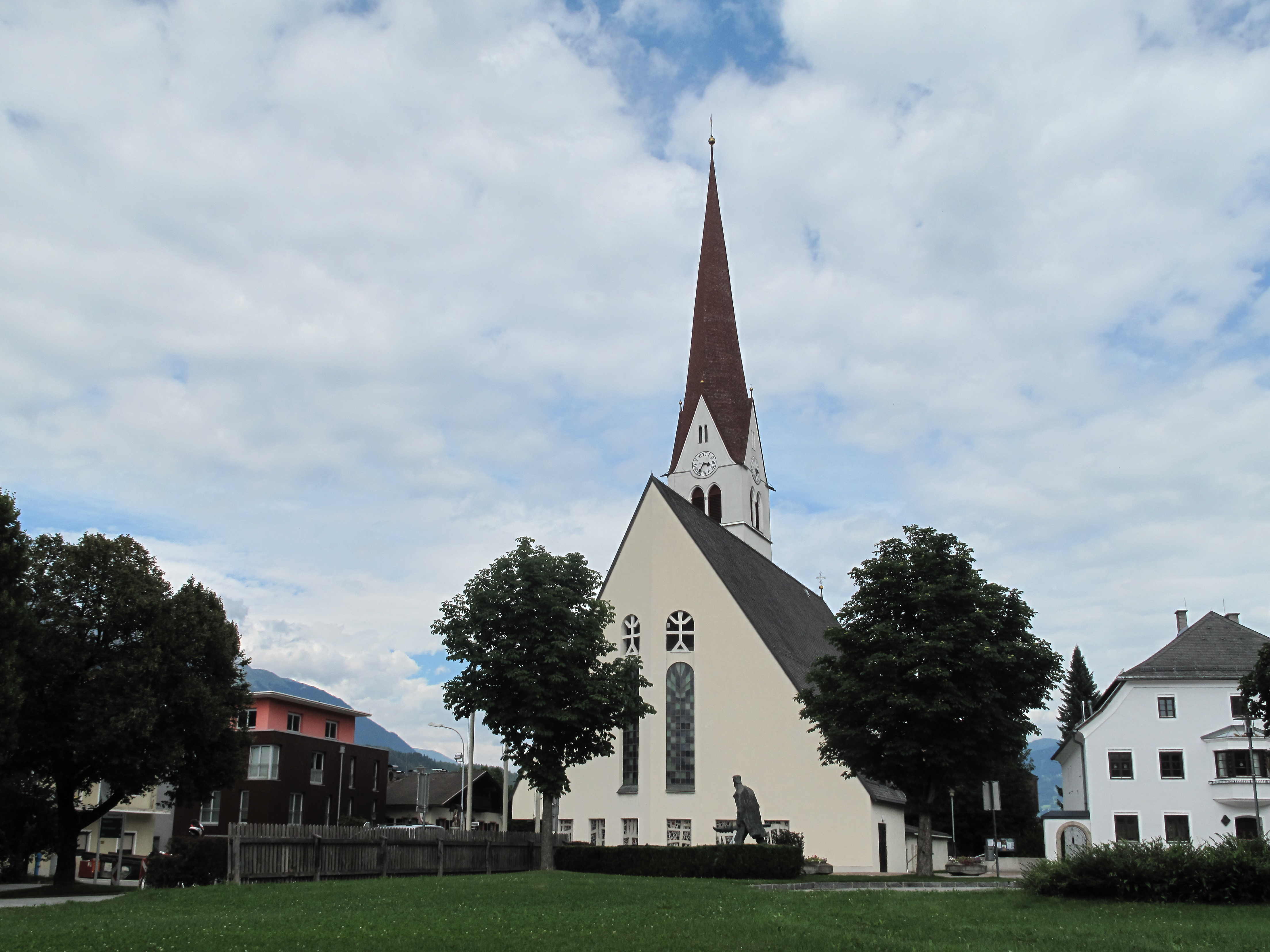 Volders, church: Katholische Pfarrkirche hl. Johannes dem Täufer